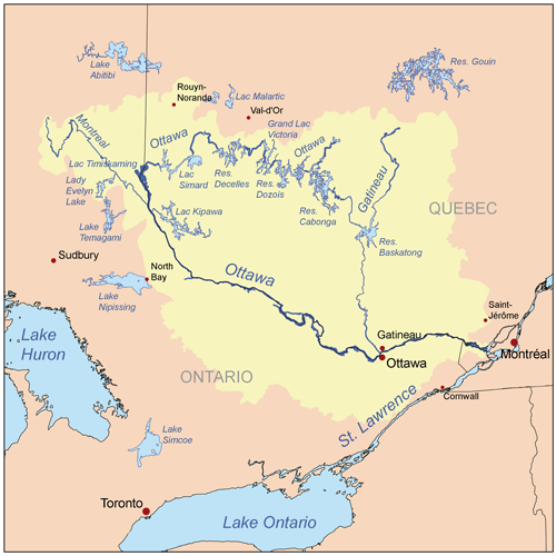 This is a map of the Ottawa River drainage basin, created based on USGS and Digital Chart of the World data. [1] used as reference.